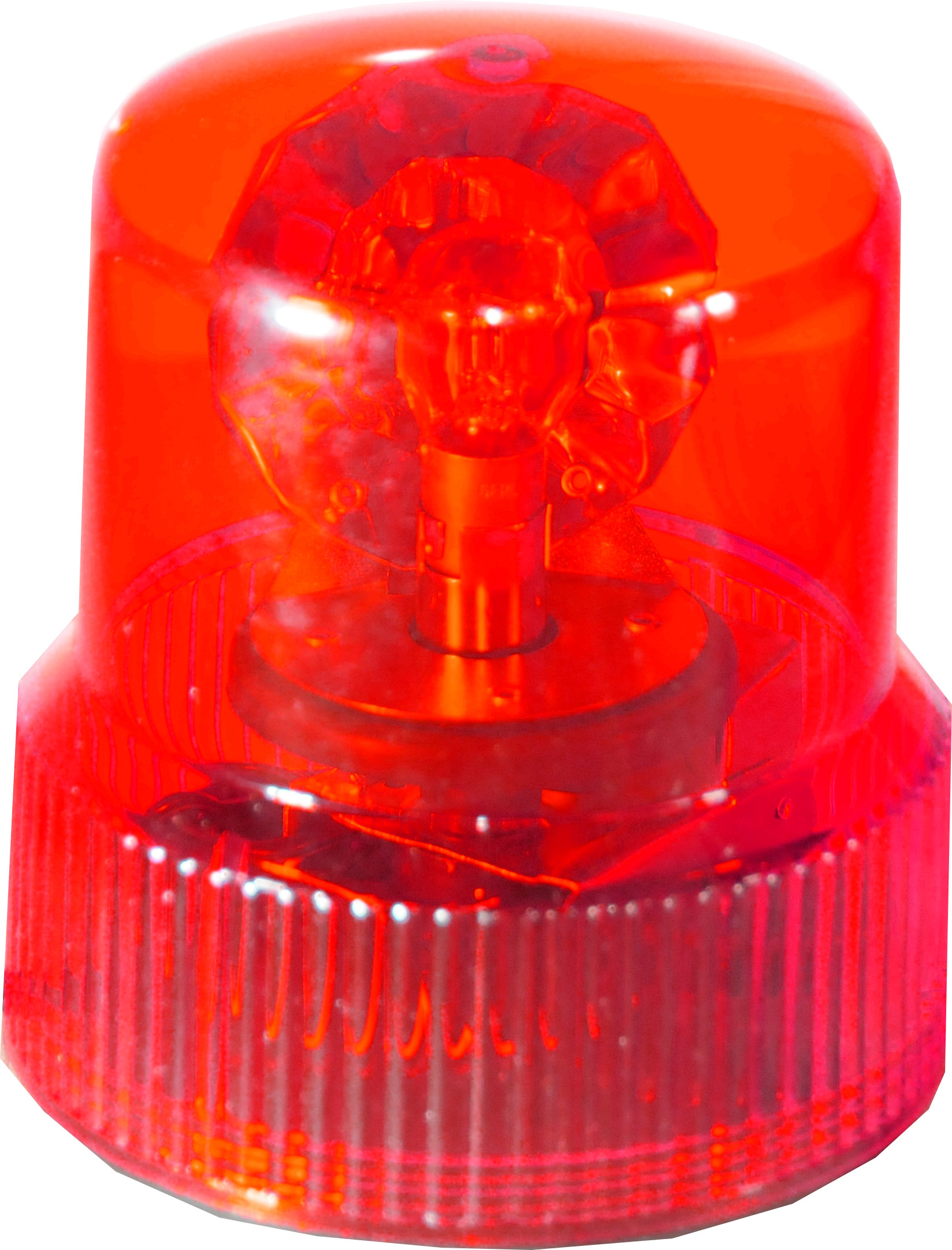 Standalone beacon